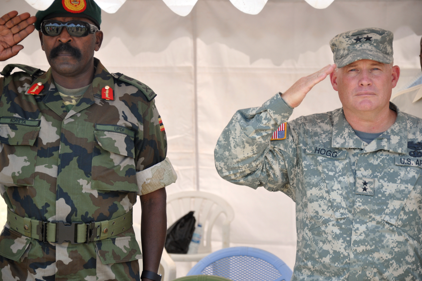 Maj. Gen. David Hogg (right), commander, U.S. Army Africa, and Lt. Gen. Ivan Koreta, deputy chief of Ugandan People’s Defense Forces, salute during the Atlas Drop 11 closing ceremony April 20. Photo by Sgt. 1st Class Brock Jones, 128th Mobile Public Affairs Detachment, Utah Army National Guard Exercise Atlas Drop 11 came to a close with a ceremony at Drop Zone Blue near Olilim April 20 following three days of aerial-delivery resupply practice missions. Distinguished visitors for the ceremony included Lt. Gen. Ivan Koreta, deputy chief of Ugandan People’s Defense Forces; Virginia Blaser, deputy chief of mission, U.S. Embassy; Maj. Gen. David R. Hogg, commander U.S. Army Africa (USARAF); Maj. Gen. William Nesbitt, adjutant general, Georgia National Guard; and Brig. Gen. James Owens, deputy commander, USARAF; as well as other UPDF and U.S. leaders and Soldiers.